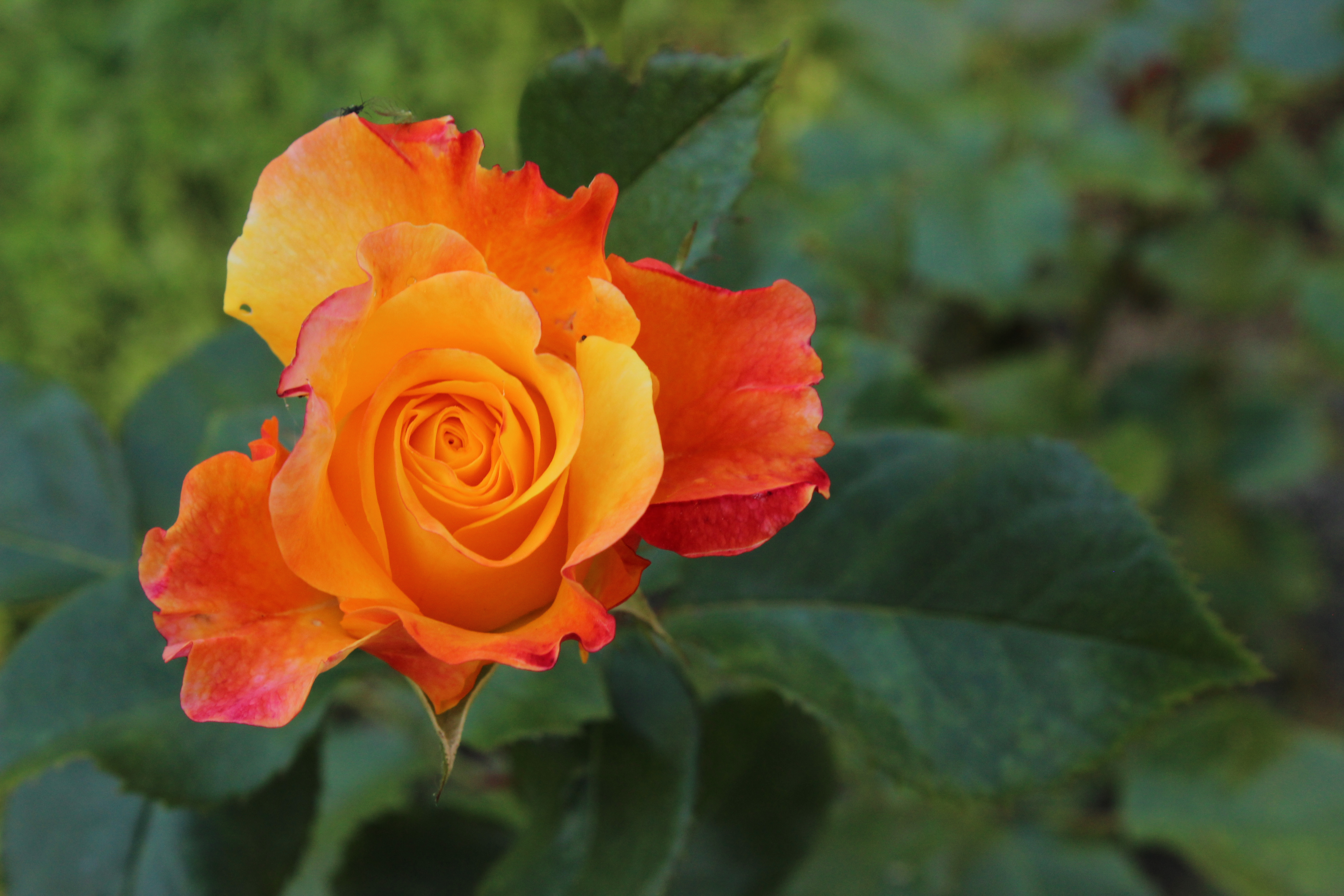 Rosa 'Kaiserin Elisabeth' in the Rosarium Baden in the Doblhoffpark in Baden bei Wien. Identified by sign.